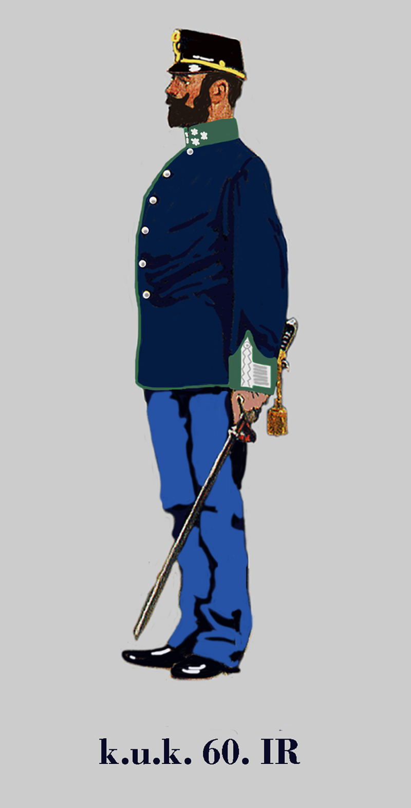 Captain of the Austria-Hungarian (k.u.k.). 60th hungarian Infantry Regiment in Service dress 1914